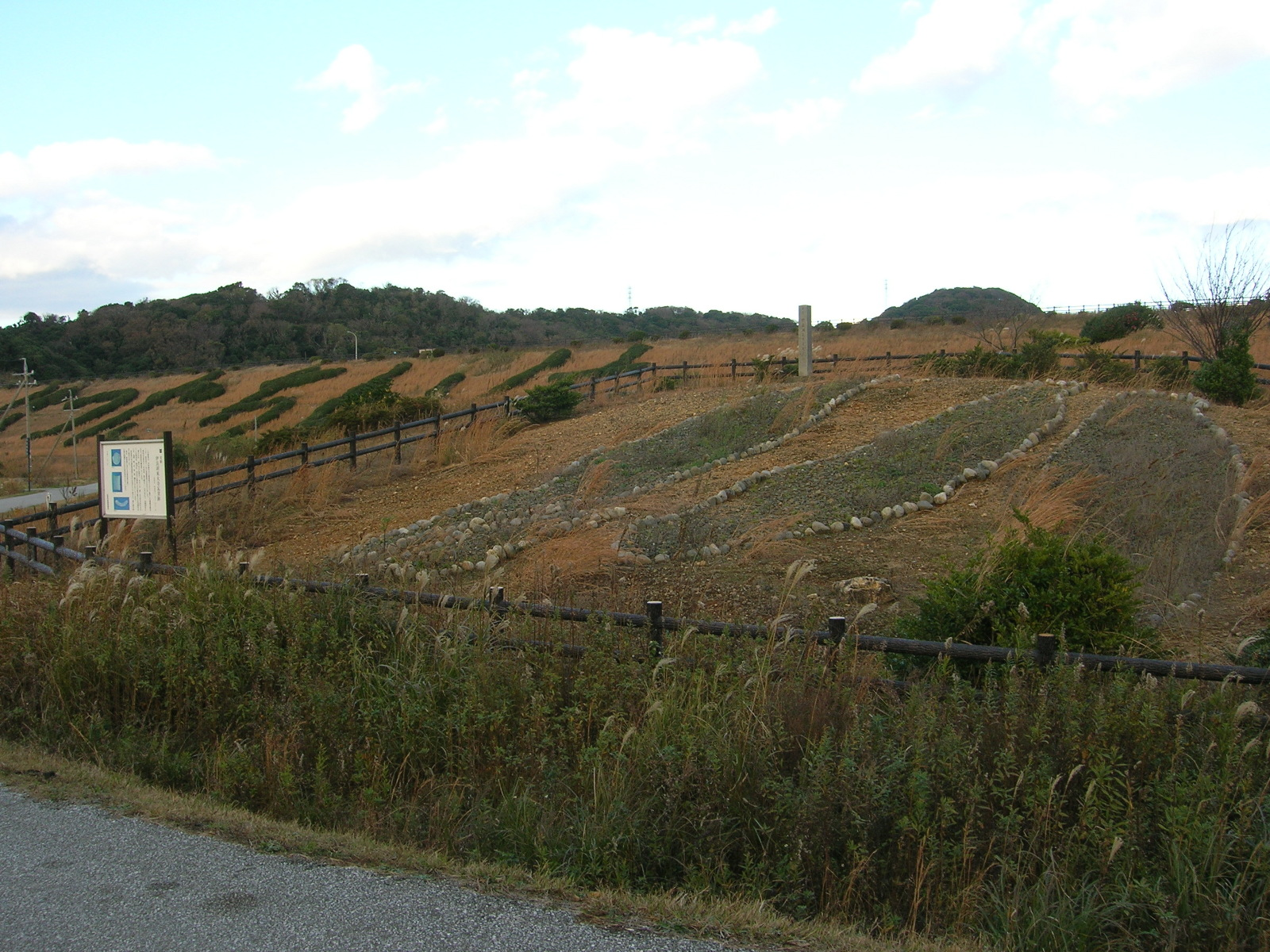 Irago Tōdai-ji gayōseki (Ruins of the kiln located in Irago manufacturing roof tiles for Tōdai-ji temple). National Historical site of Japan. Loc: Tahara city, Aichi Prefecture, Japan. 伊良湖東大寺瓦窯跡（日本国指定の史跡） 撮影場所 愛知県田原市